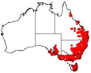 Exocarpos cupressiformis Occurrence data from Australasian Virtual Herbarium downloaded 2019-08-24 using